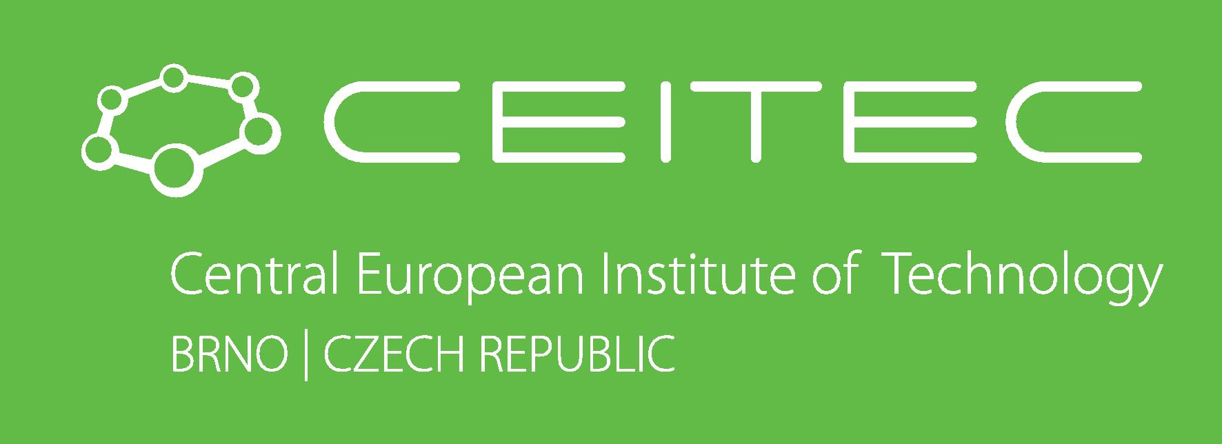 Logo of CEITEC